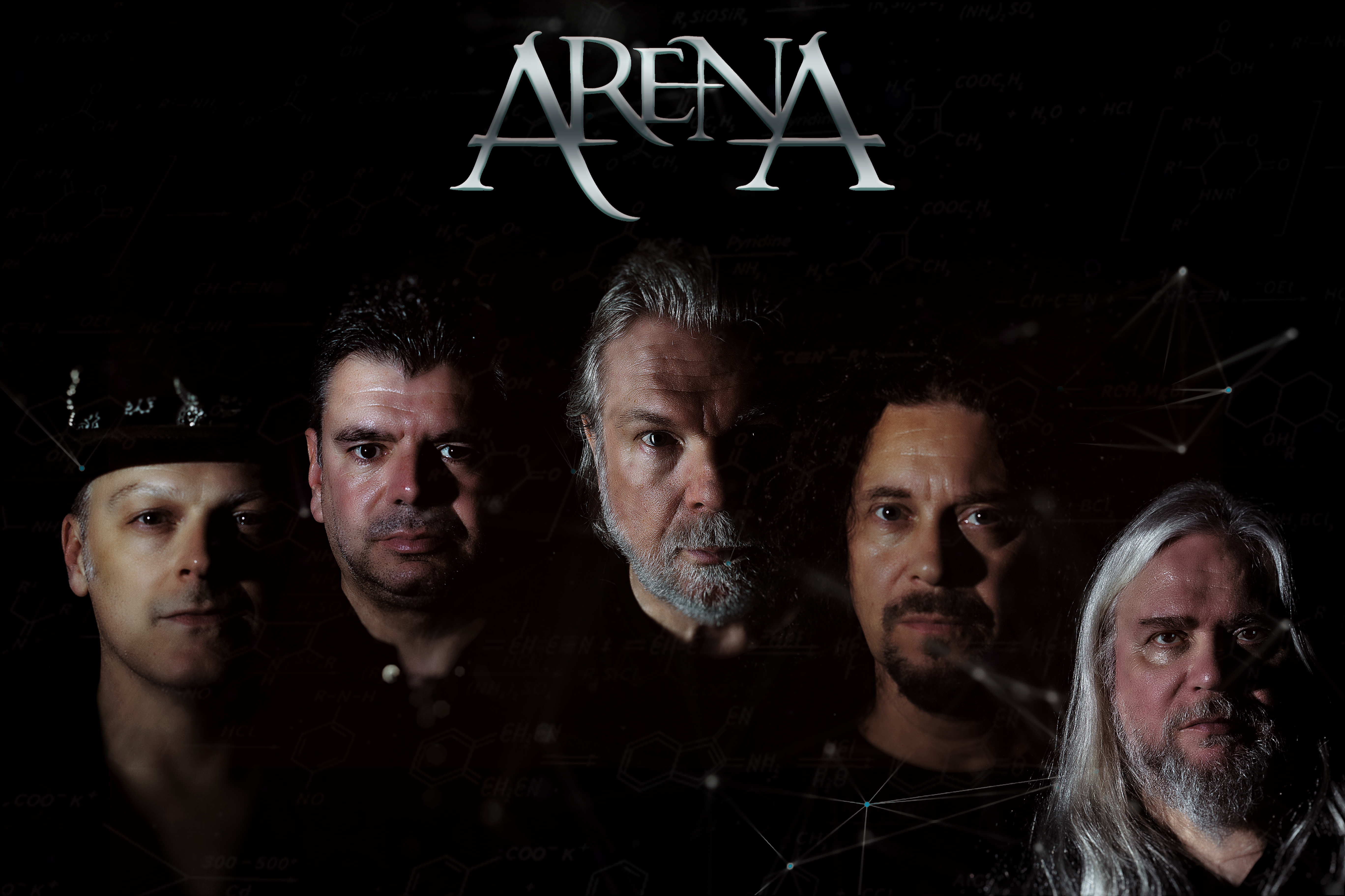 The band Arena in 2020, Mick Pointer, Clive Nolan, John Mitchell, Paul Manzi & Kylan Amos.